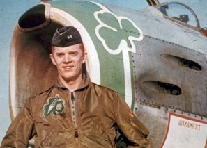 U.S. Air Force Captain Russell Schweickart, of the en:101st Fighter Squadron, Massachusetts Air National Guard, standing in front of his North American F-86H Sabre (decorated with the squadron's "Lucky Shamrock" symbol) on the day he left for astronauts training in 1963.